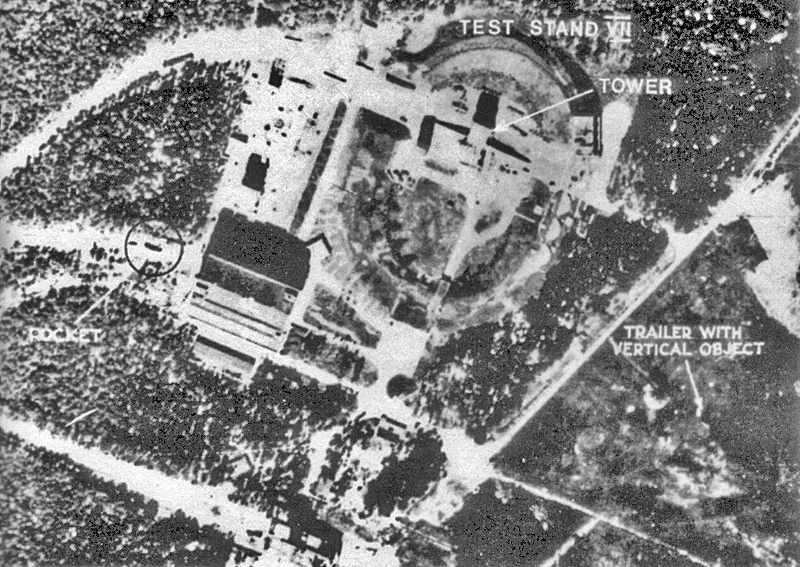 Royal Air Force reconnaissance photograph of V-2 rockets at Peenemünde Test Stands I and VII